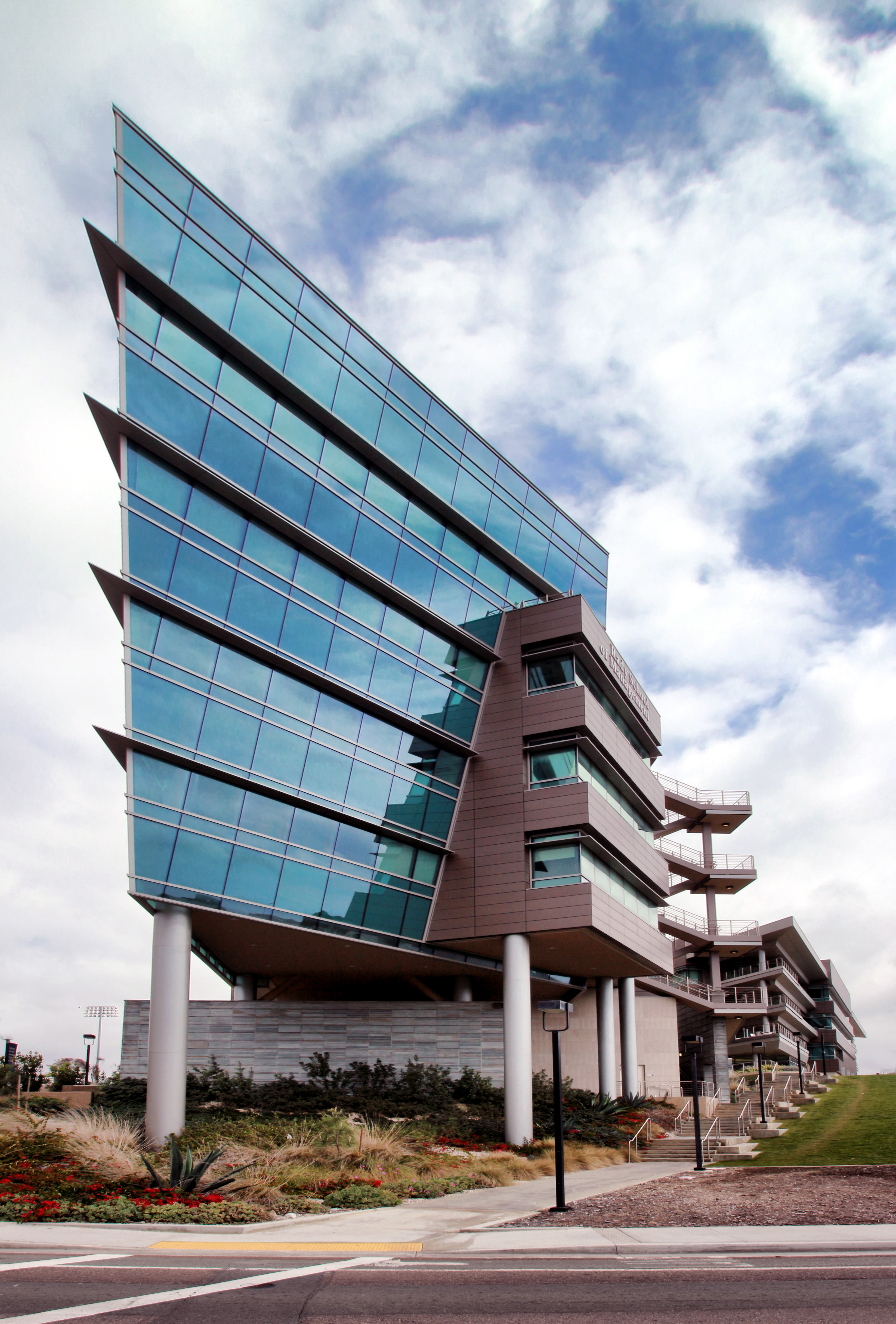 Wells Fargo Hall at the UC San Diego Rady School of Management, as seen from Scholars Drive North